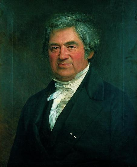 Portrait of Christian Jürgensen Thomsen